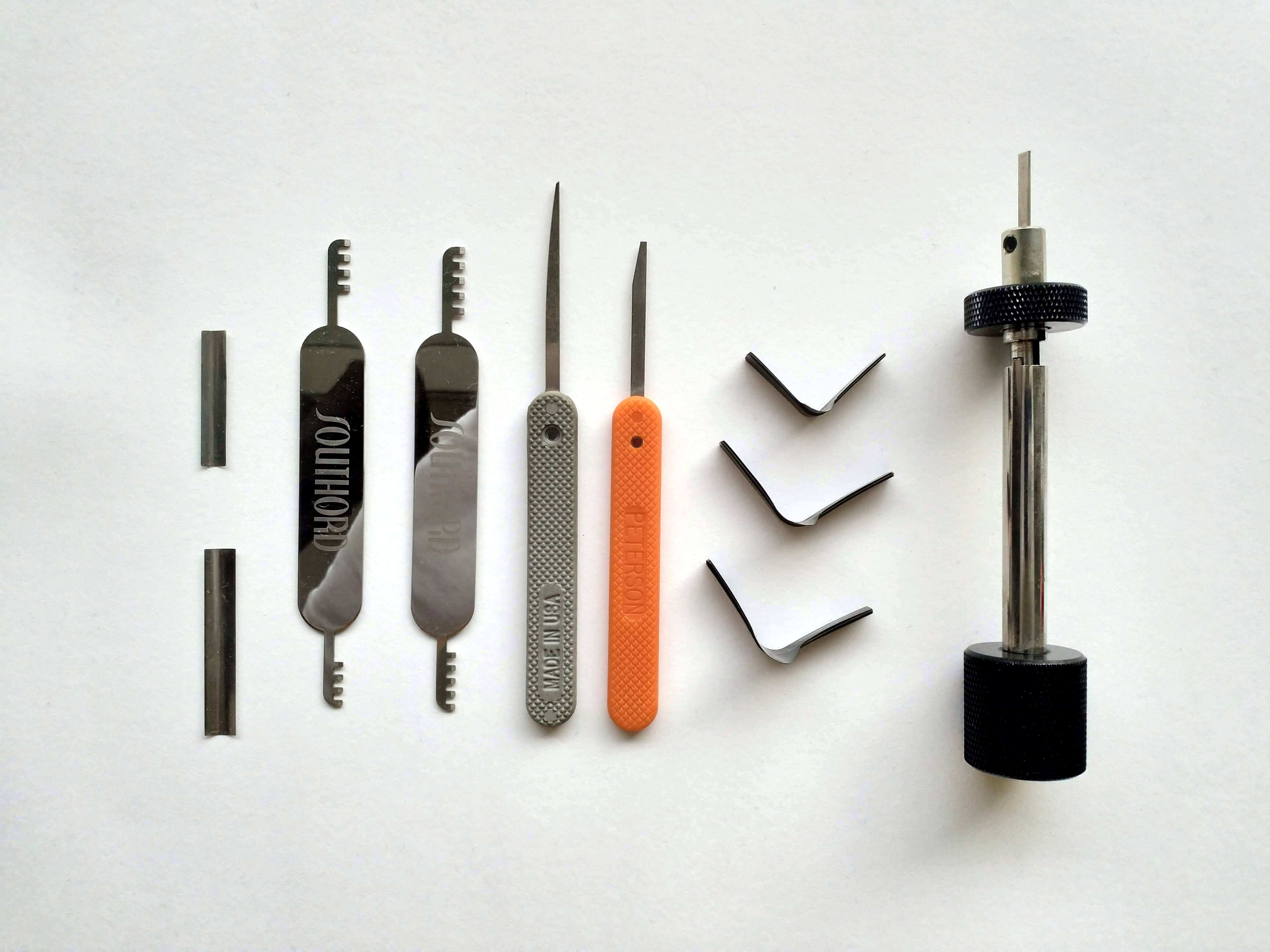 From left to right: 1-2. core shims used to trap pin tumbler lock pins 3-4. comb "picks" used to open locks with unnecessarily long spring chambers 5. lock knife used for bypassing unshielded padlocks 6. feeler probe used for decoding combination locks 7-9. padlock shims used for freeing the shackle without picking 10. plug spinner used for quickly rotating the core after the lock has been picked to prevent the lock from returning to locked position